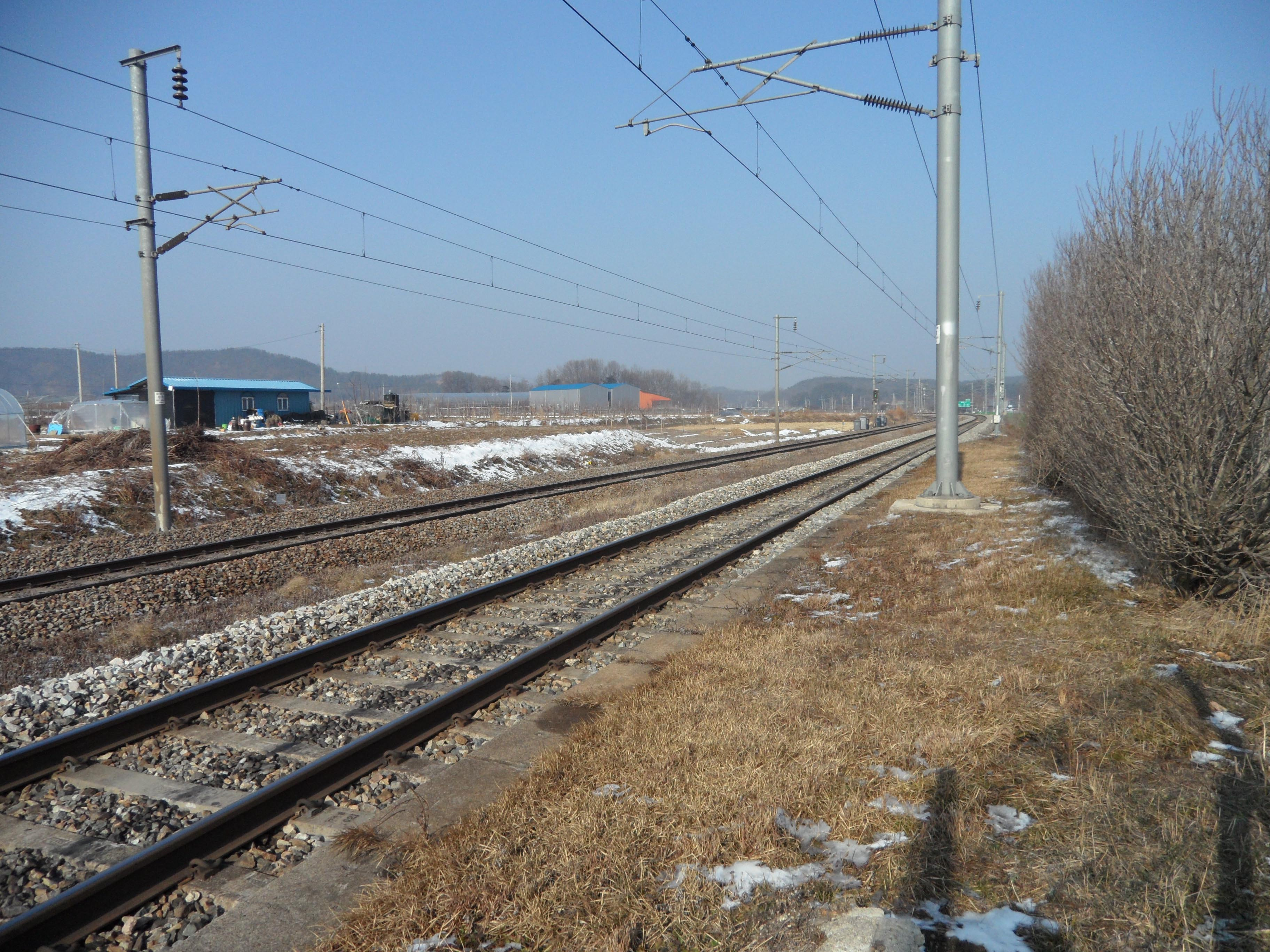 Gapung Station (disused)